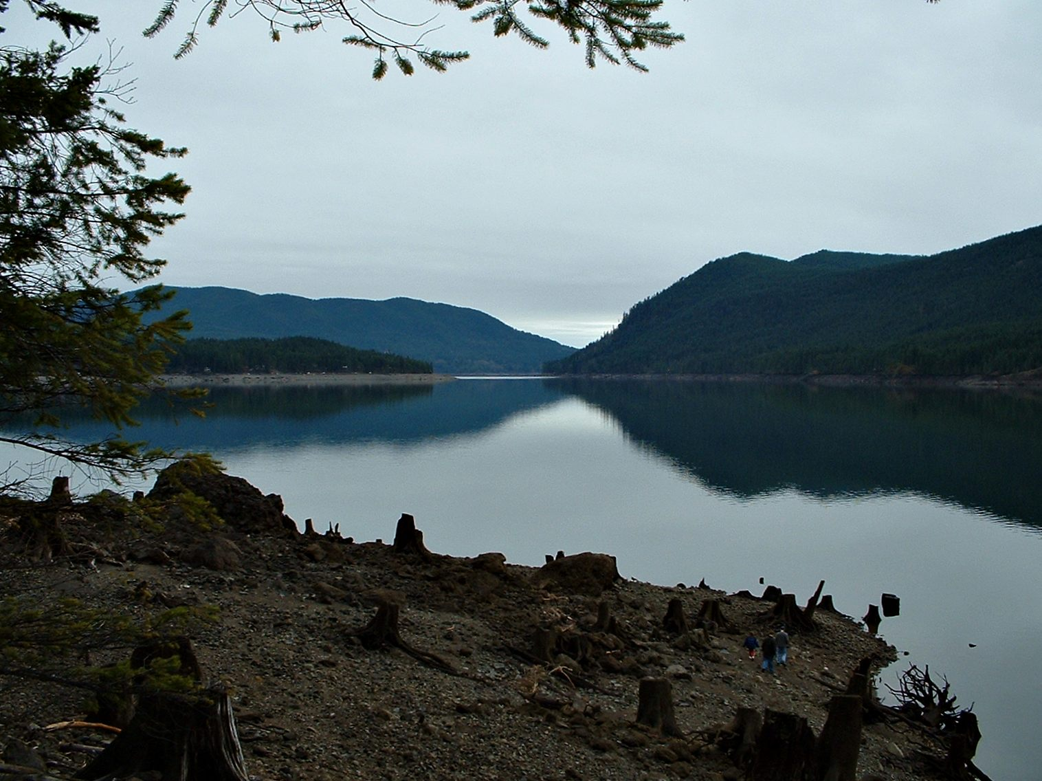 Stumps on the shore of Lake Cushman.